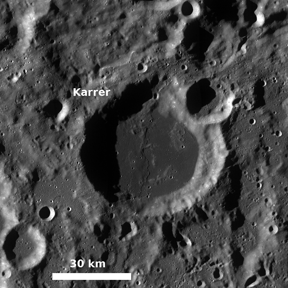 LROC WAC 100 m/pixel monochrome mosaic of the mare-filled Karrer crater. The scarp runs approximately north-south through the middle of the crater [NASA/GSFC/Arizona State University].